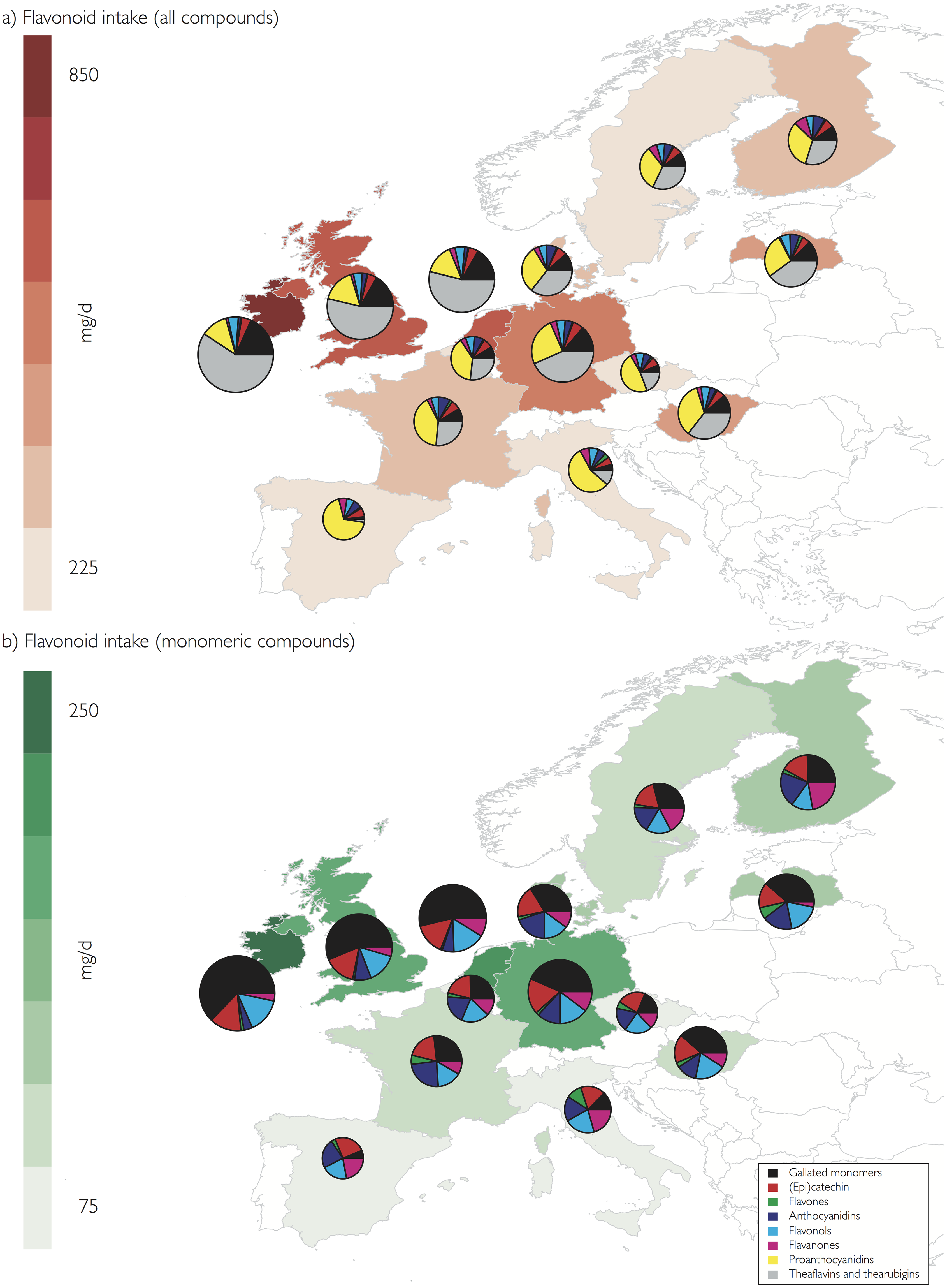 Mean flavonoid intake in mg/d per country, the pie charts show the relative contribution of different types of flavonoids.